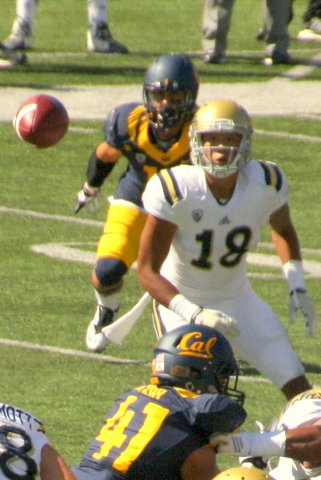 Thomas Duarte of the UCLA Bruins against the California Golden Bears